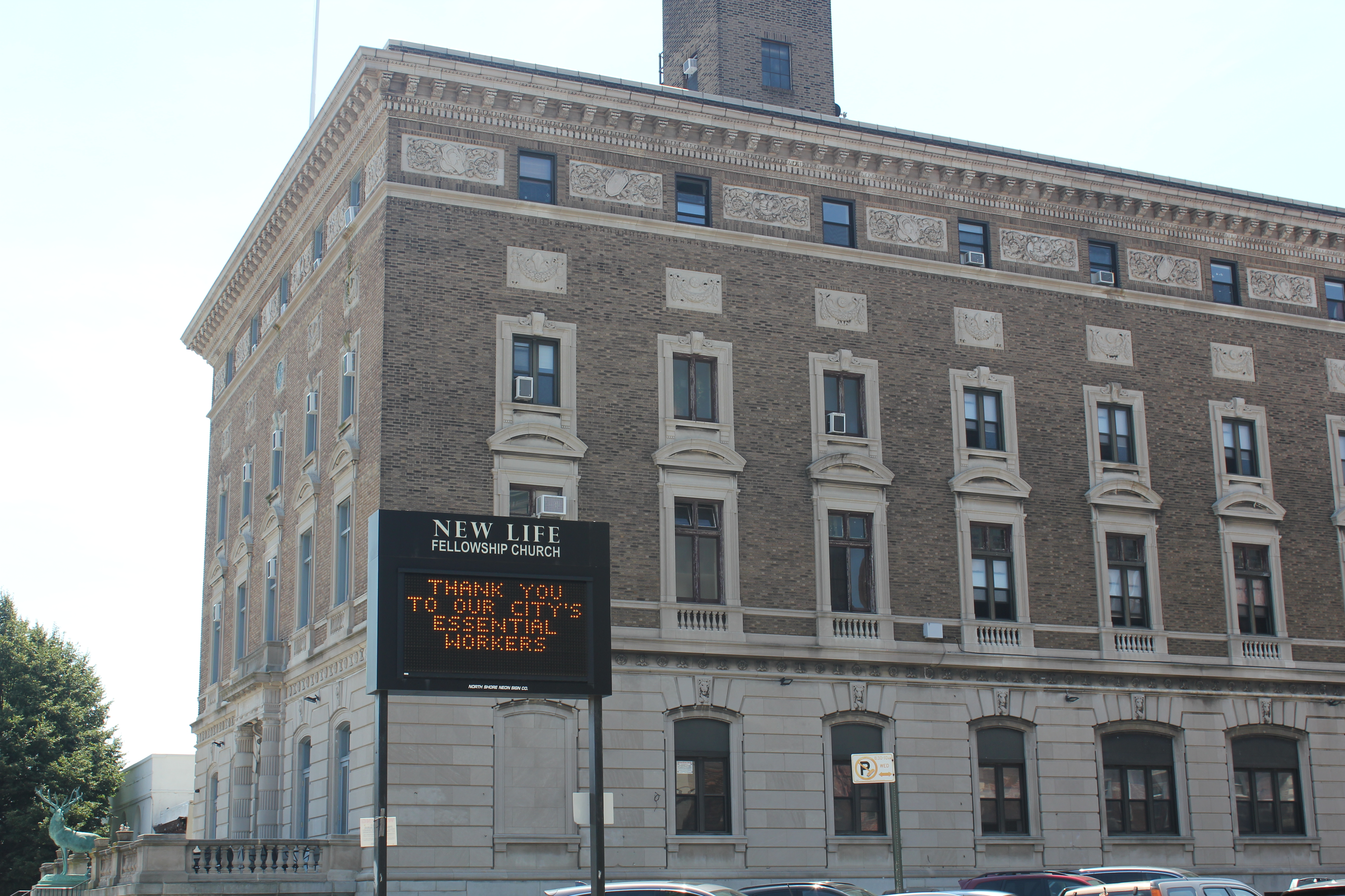 Benevolent and Protective Order of Elks, Lodge Number 878, Elmhurst, Queens, NY in July 2020. The sign's message, "Thank you to our city's essential workers", was taken during the COVID-19 pandemic in New York City.